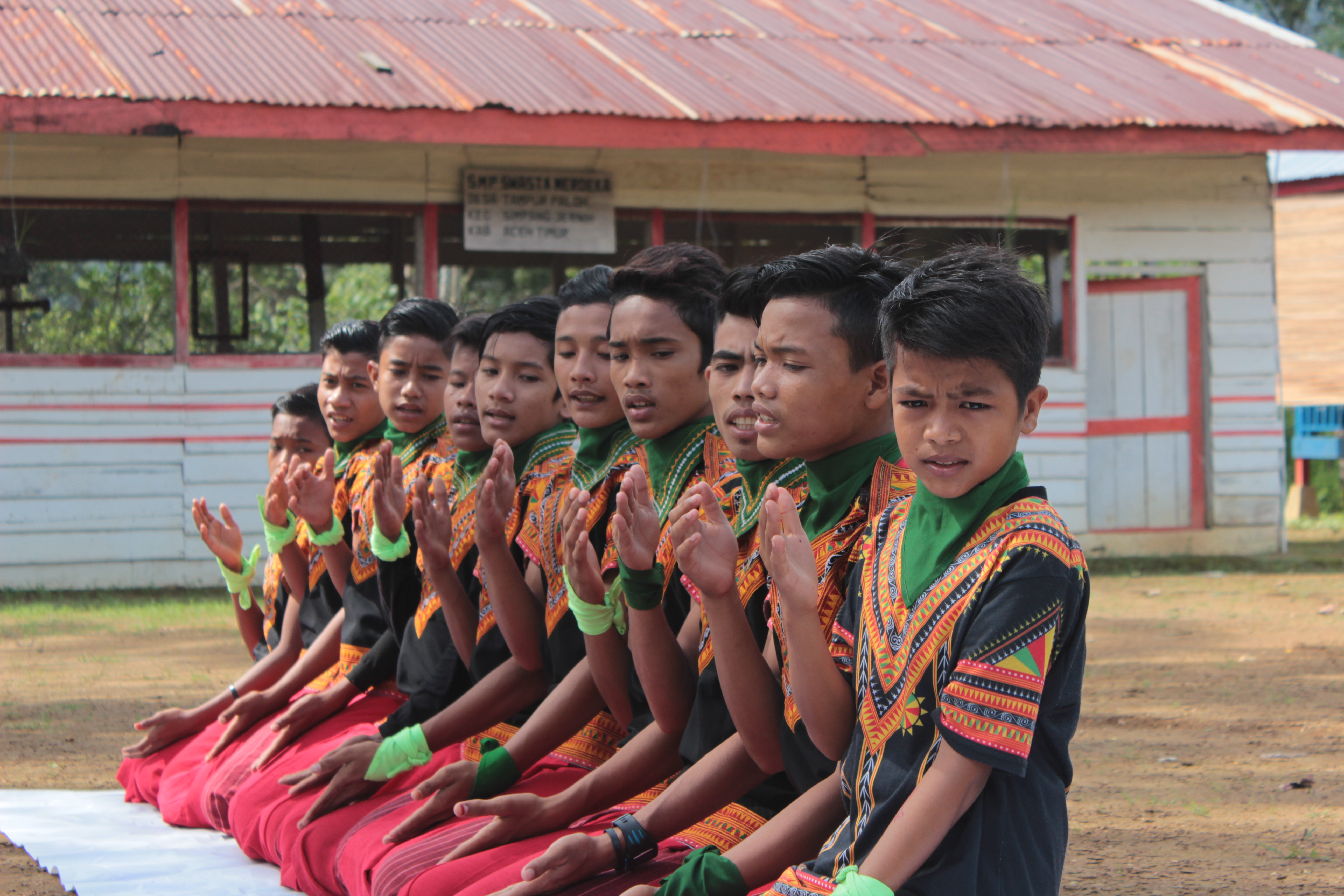 a group of children presented Saman Dance to guests who were visitting their hometown where is far away from the capital city. It takes 7 hours from the nearest city driving small boat on the river. The people in the village are very welcome and excited to everyone who come to the "corner paradise of Aceh", a call for the village.